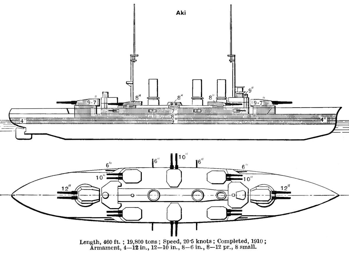 Right elevation and deck plan diagrams depicting Japanese battleship Aki. Numbers on top diagram show armour thickness (shaded areas) in inches. Numbers on bottom diagram show size of guns in inches.